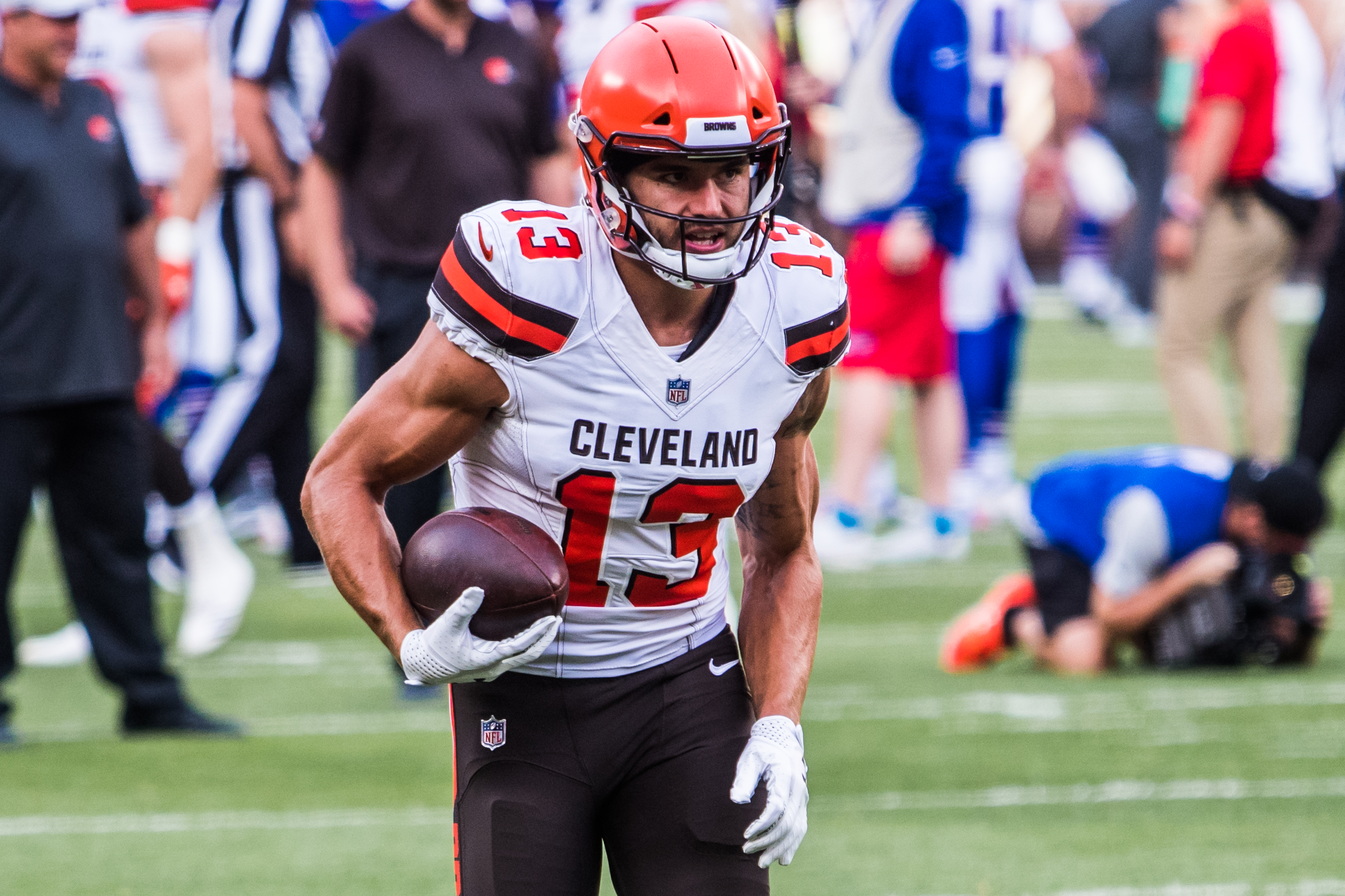 Jeff Janis